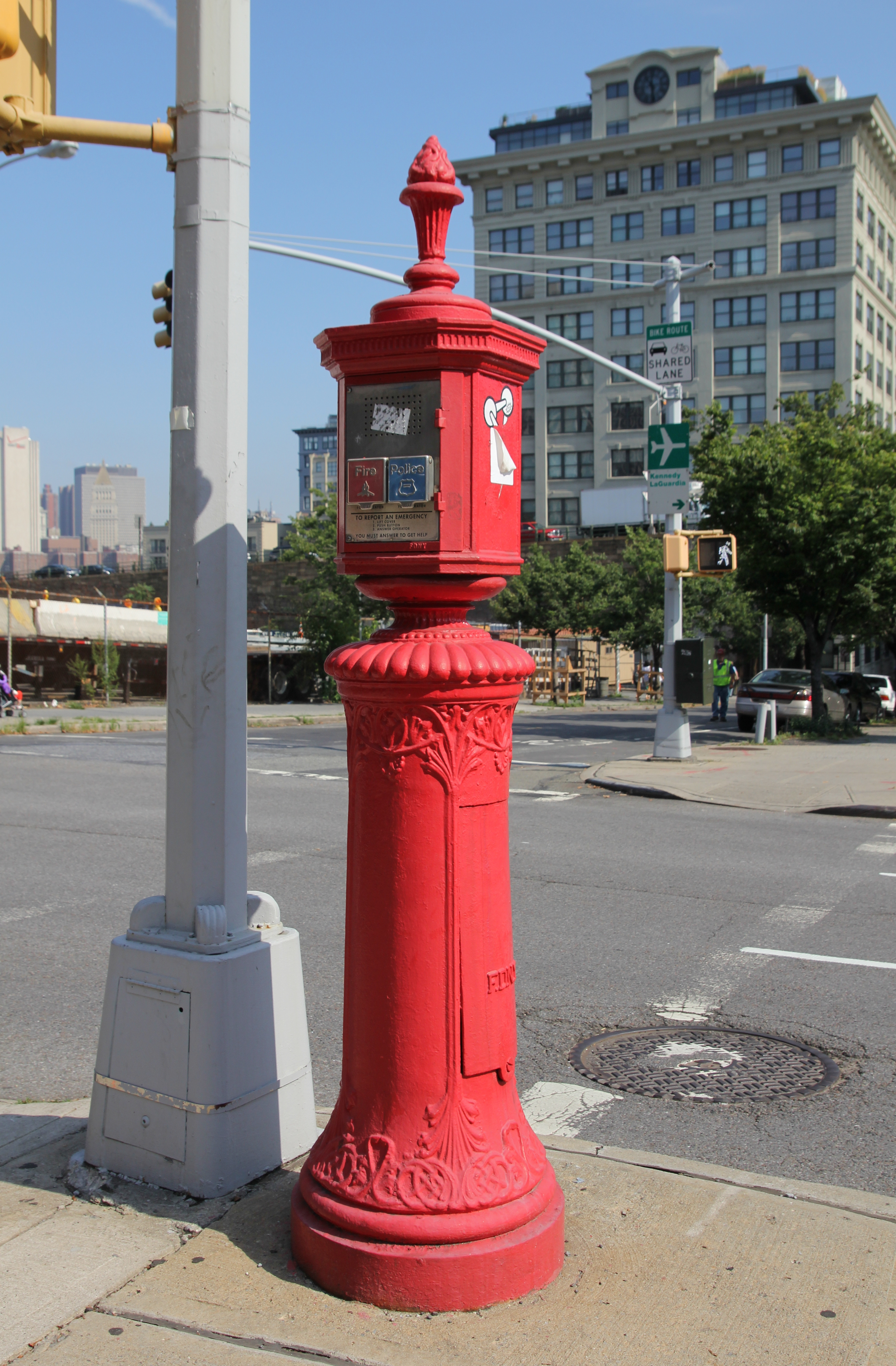 Emergency telephone in New York City